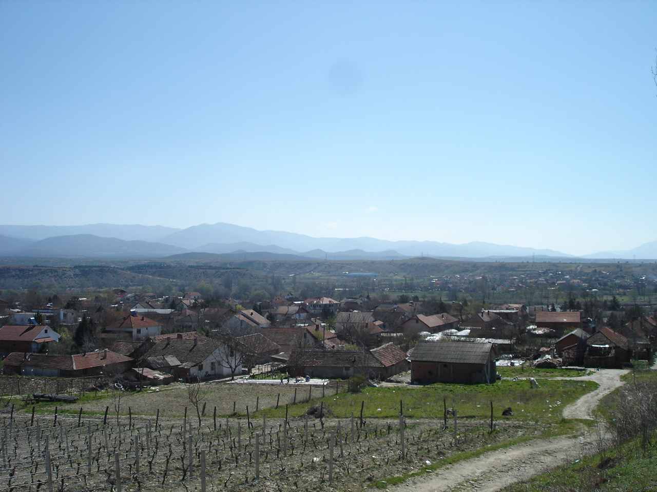 Vineyards in the village of Krivolak, Negotino Municipality, Macedonia